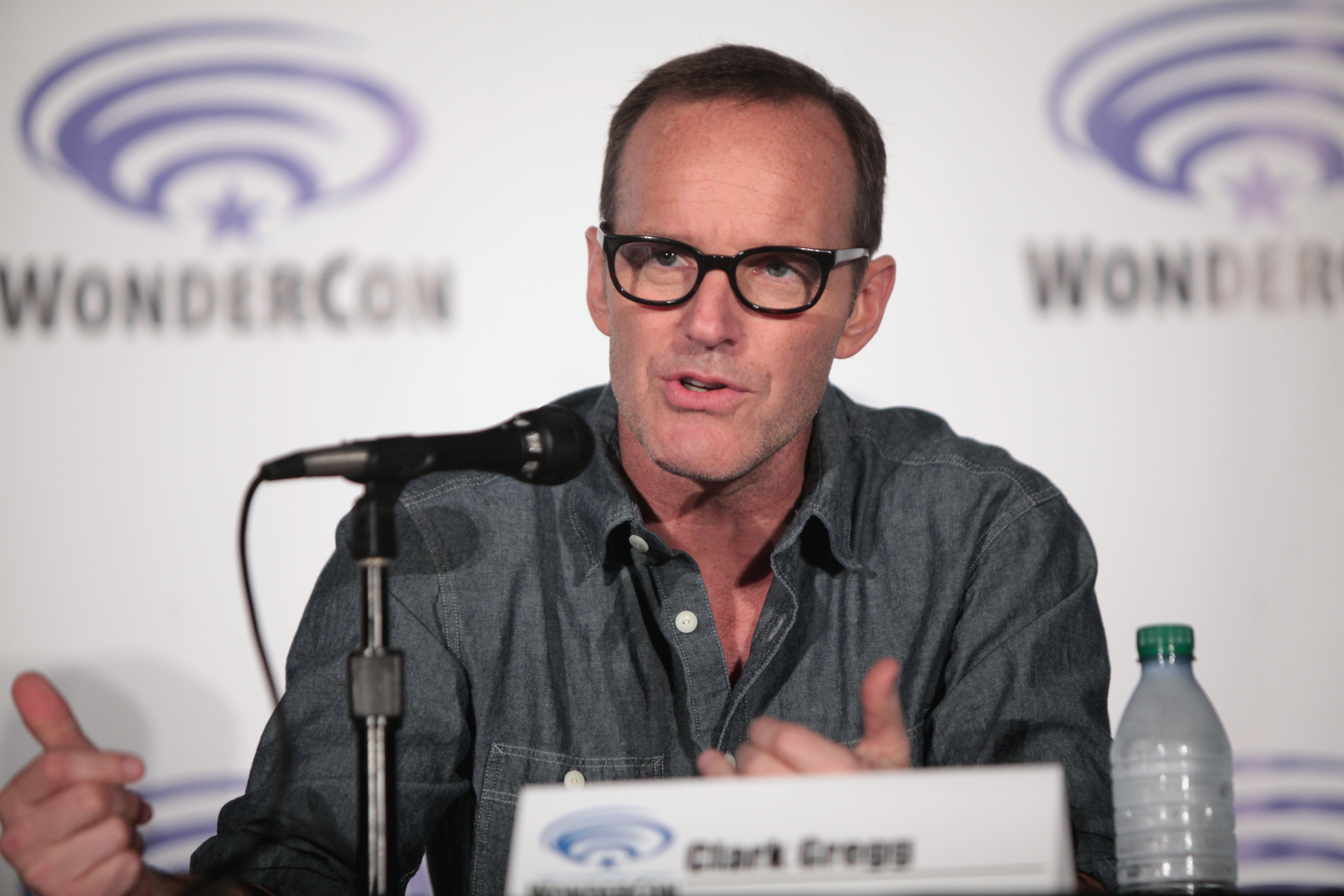 Clark Gregg speaking at the 2016 WonderCon, for "Marvel's Agents of S.H.I.E.L.D.", at the Los Angeles Convention Center in Los Angeles, California.